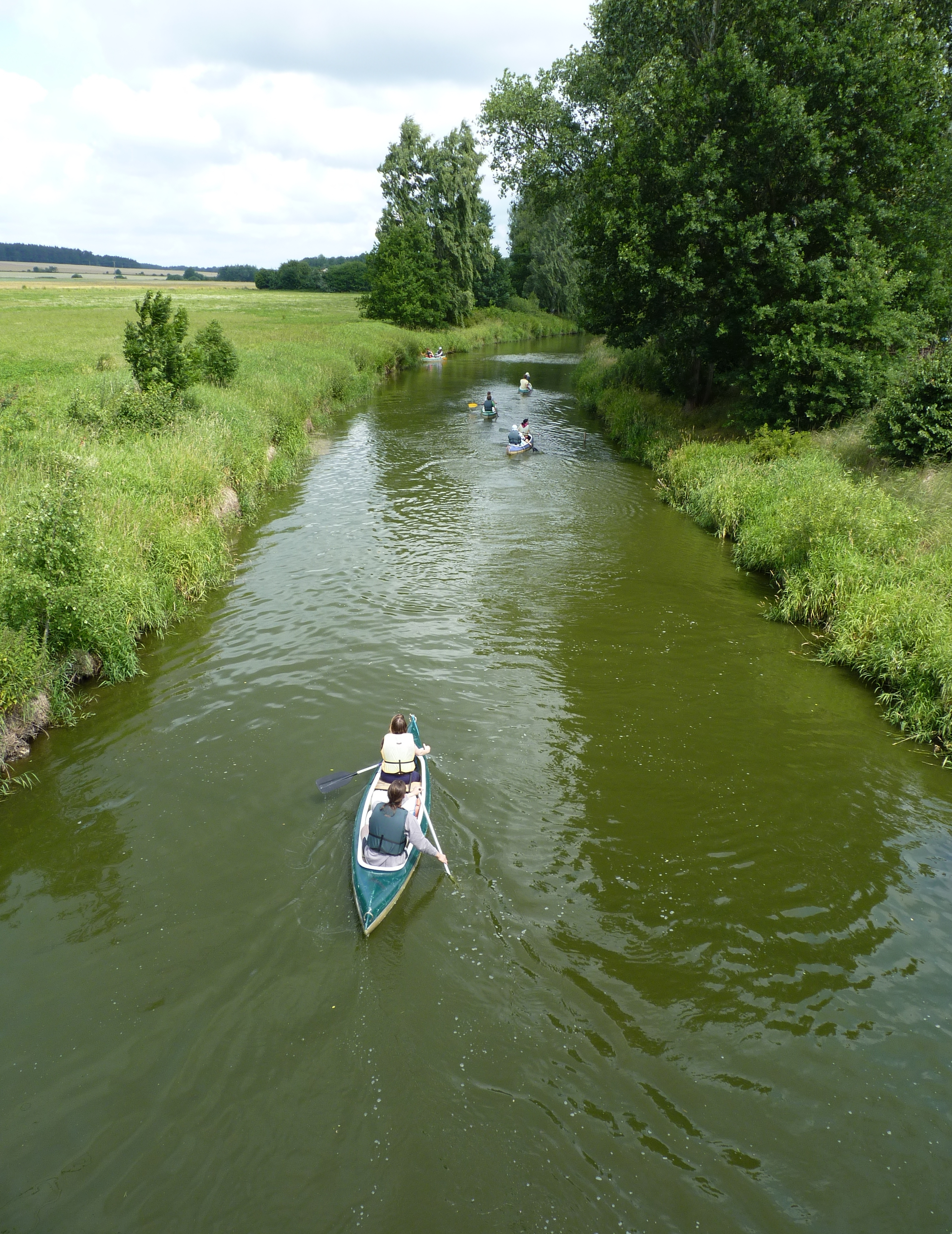 Lužnice River near Klec. Jindřichův Hradec District, South Bohemian Region, Czech Republic